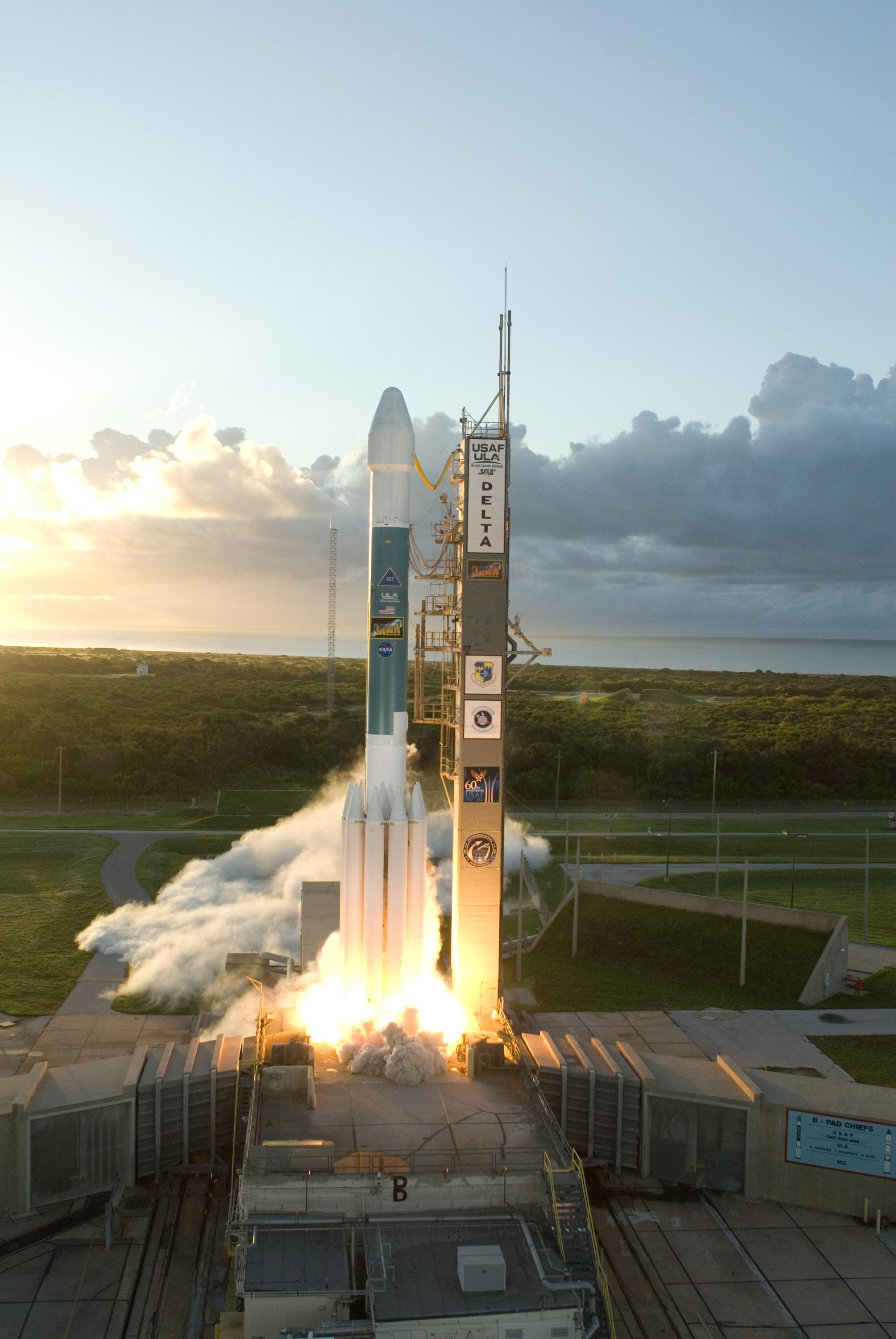 Dawn Ignitation.